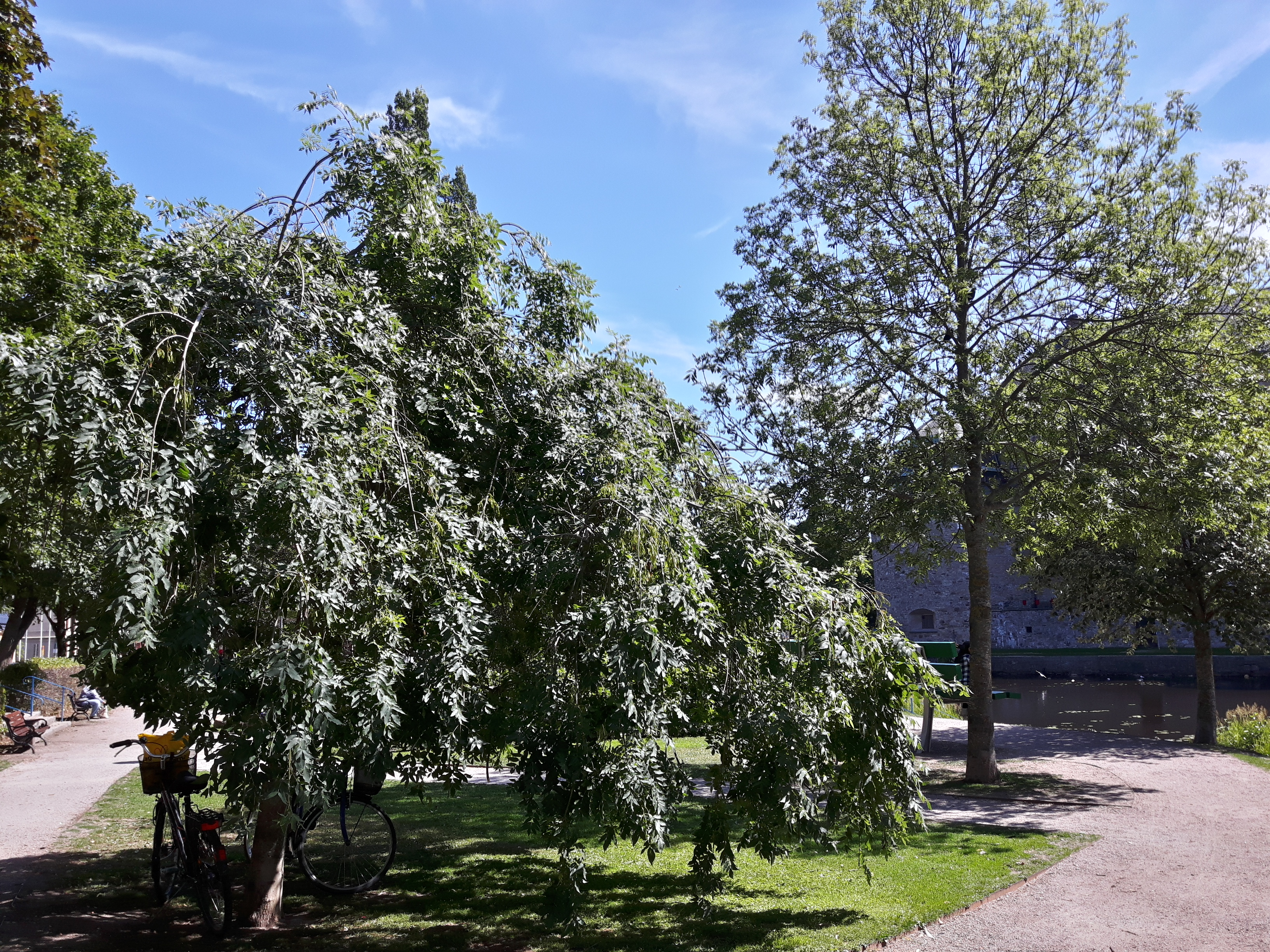 Ash tree (Fraxinus excelsior, right) and Weeping ash (Fraxinus excelsior pendula, left) in Örebro, Sweden, Henry Allard's park, near Järntorget (Iron market square) and the castle.